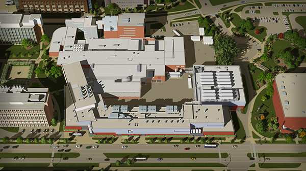 The Facility for Rare Isotopes Beams (FRIB) will be a new scientific accelerator facility for nuclear science, funded by the U.S. Department of Energy Office of Science (DOE-SC), Michigan State University (MSU), and the State of Michigan.